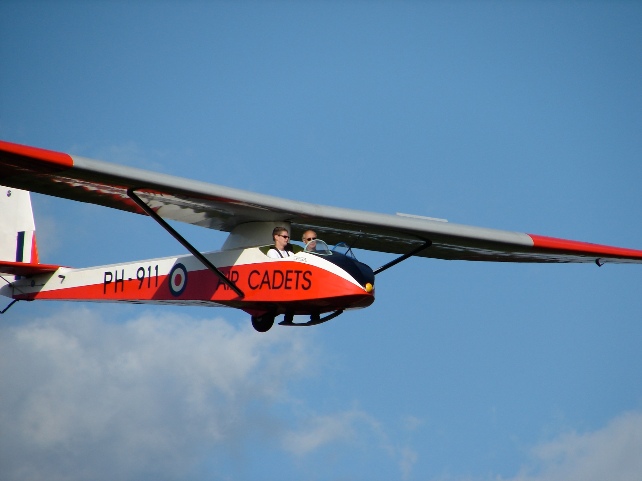 A 1959 Slingsby T.21B Sedbergh sailplane, Netherlands registry PH-911 (also 4194), serial number 1207. This aircraft is stationed at an airfield in Teuge, Netherlands. Netherlands registry info